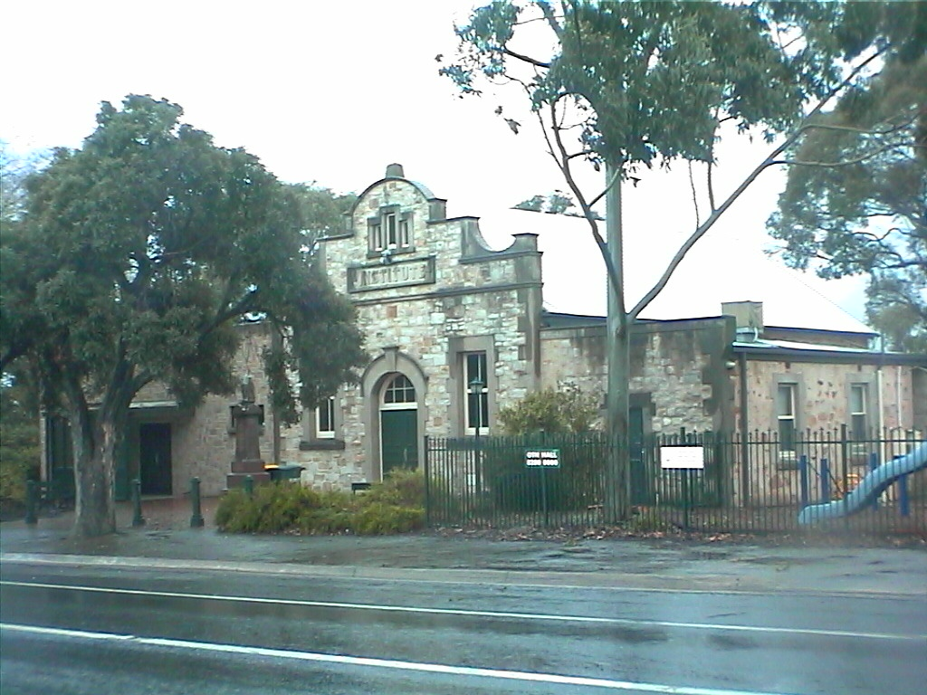 One Tree Hill Institute, Black Top Rd, One Tree Hill, South Australia. The building's foundation stone was laid in 1906. In front of the main entrance is a war memorial, commemorating local citizens lives lost in World War I and World War II.